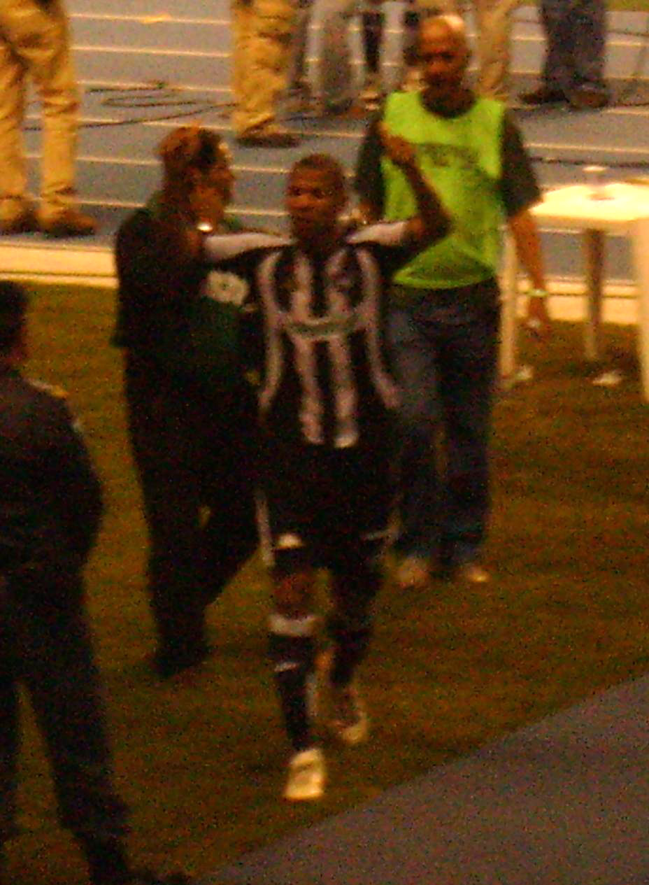 Photo of André Luís, brazilian defender acting for Botafogo FR.